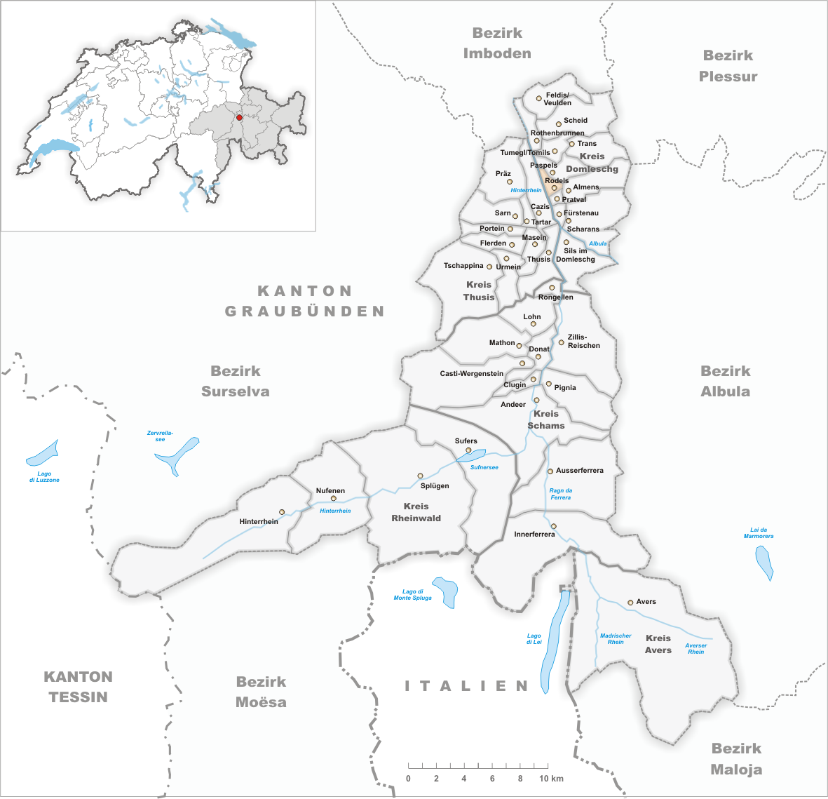 Municipality Rodels